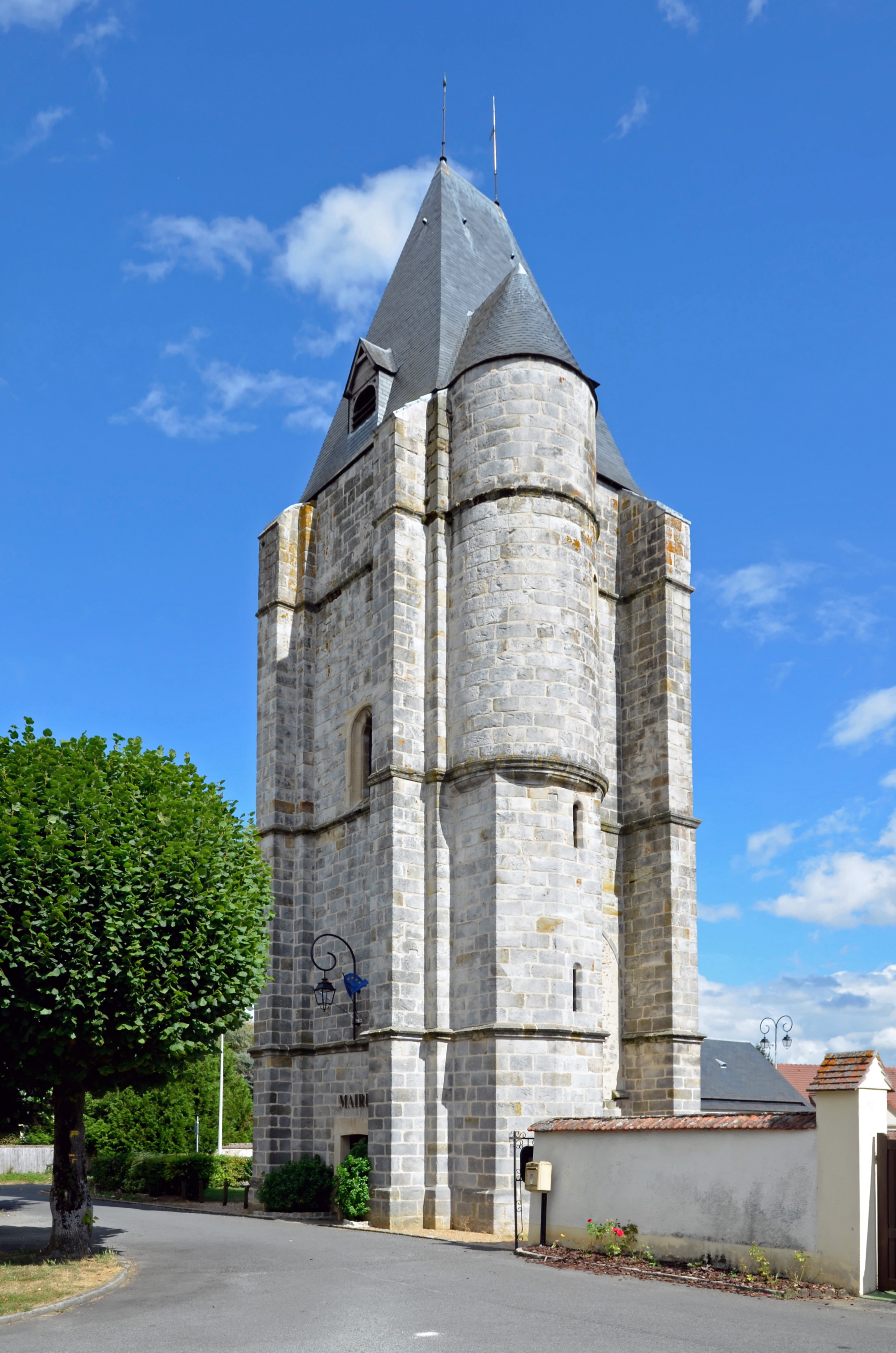 Former church tower called “Le Pilori”, now the city hall of Lormaye (Eure-et-Loir, France).